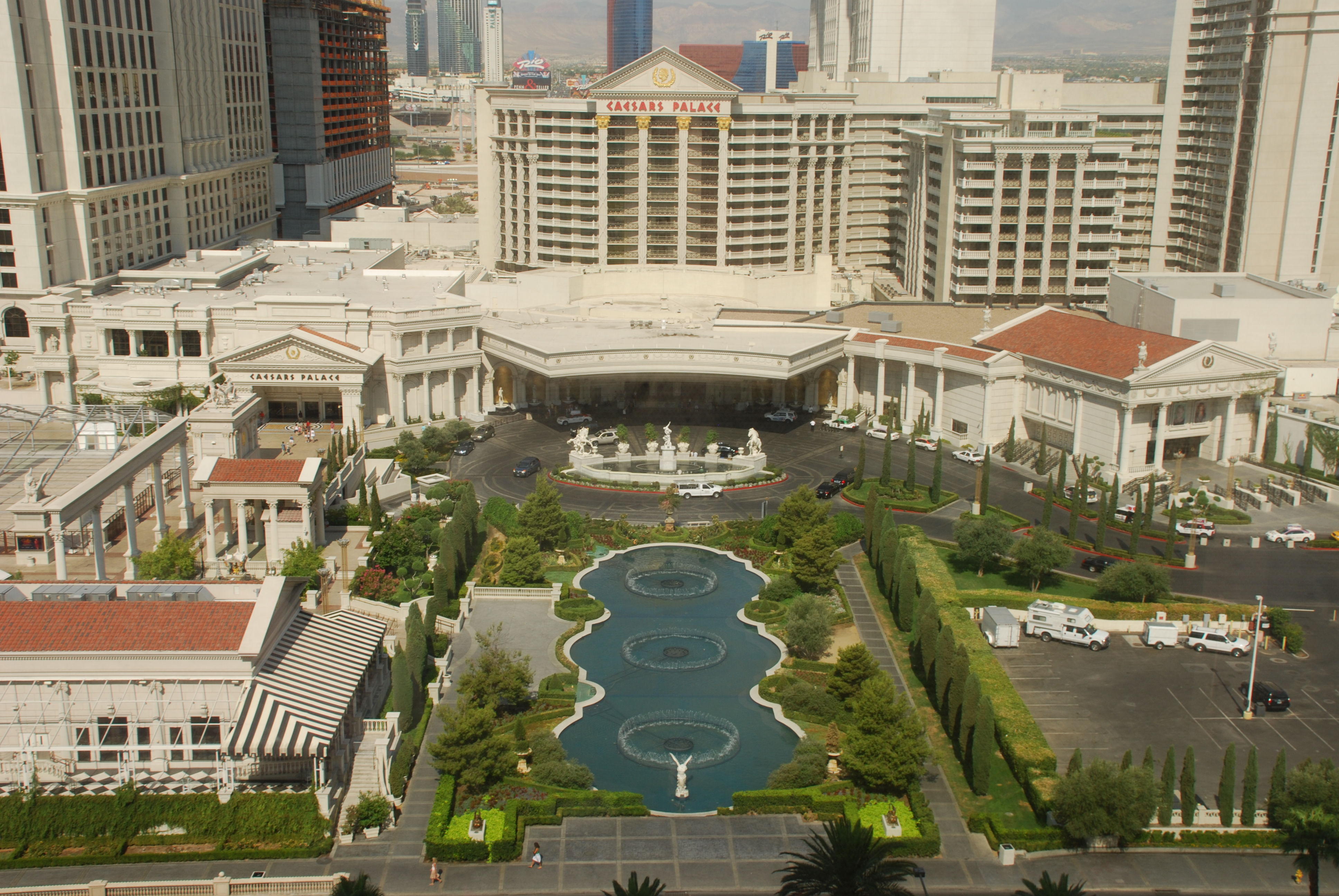 View of Caesars Palace from nearby hotel